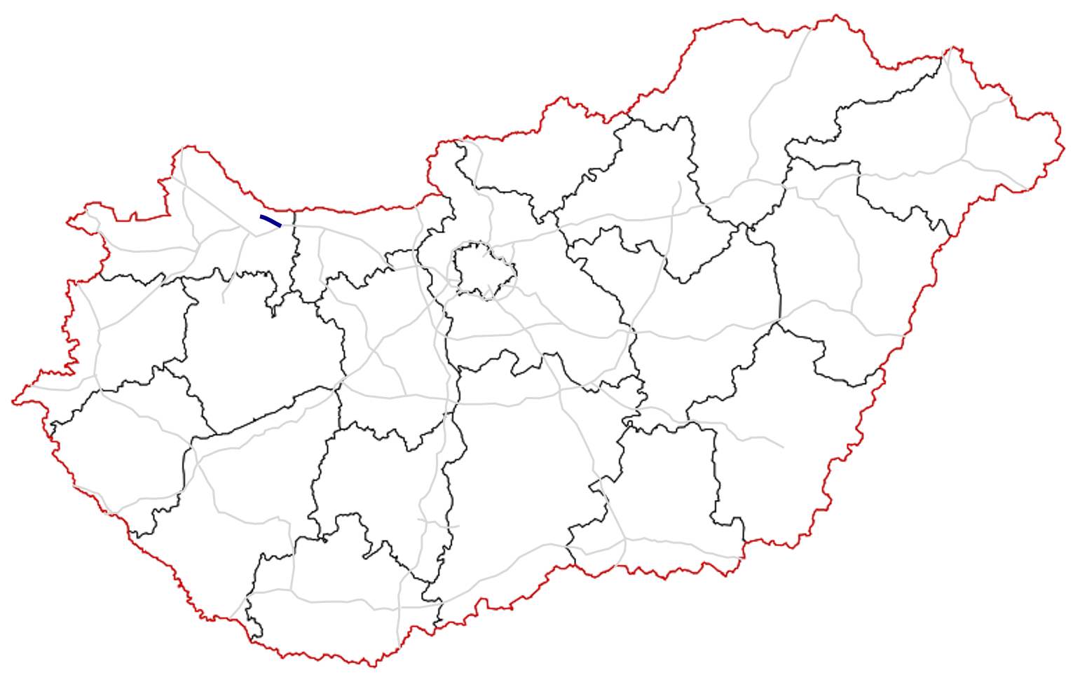 Traject the M19 Motorway, Hungary (Blue: in use, Light blue: under construction, Green: planned)